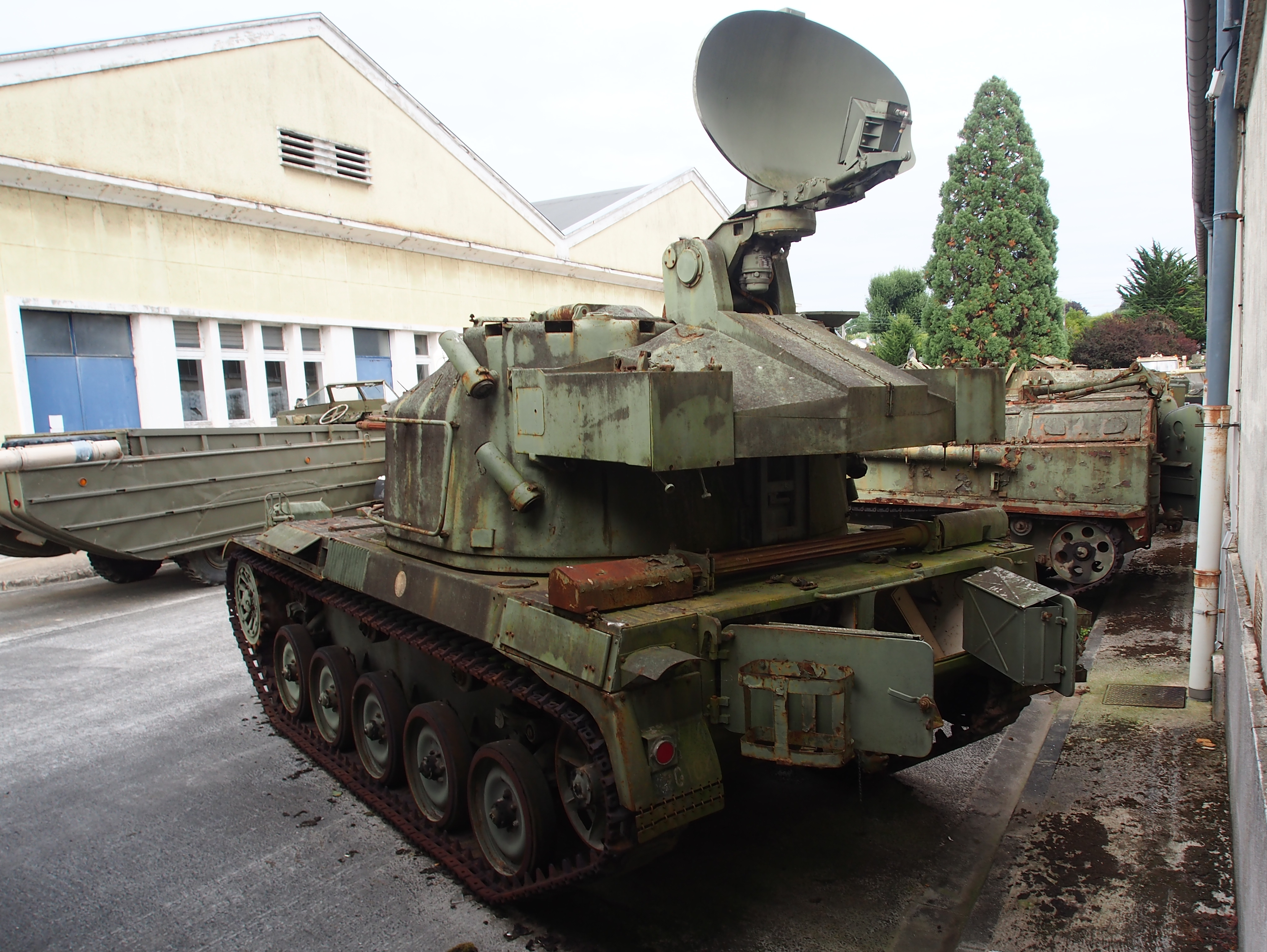 Photographed in the Musée des Blindés, France.